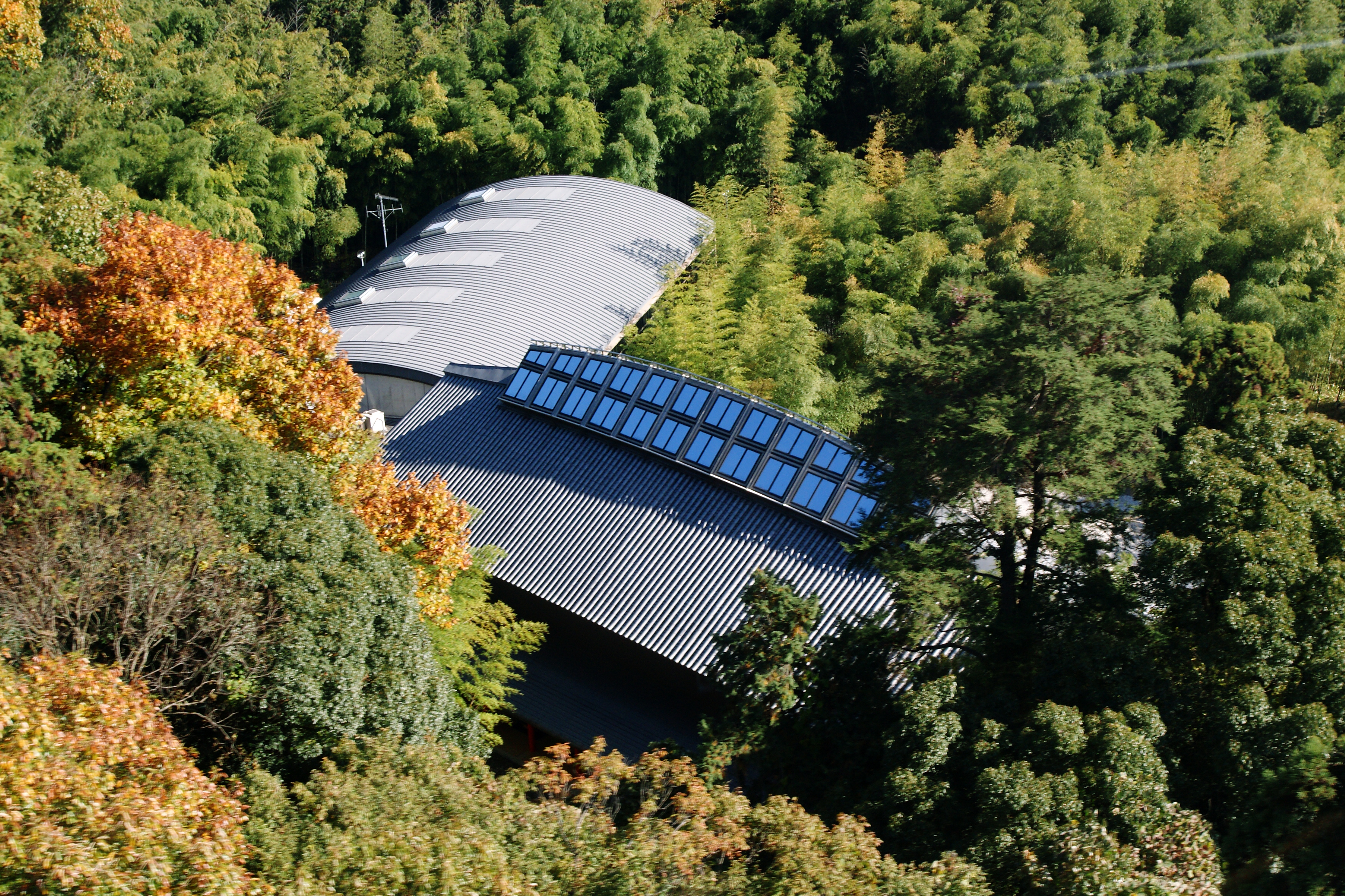 Shosha Art and Craft Museum, Himeji, Hyogo prefecture, Japan